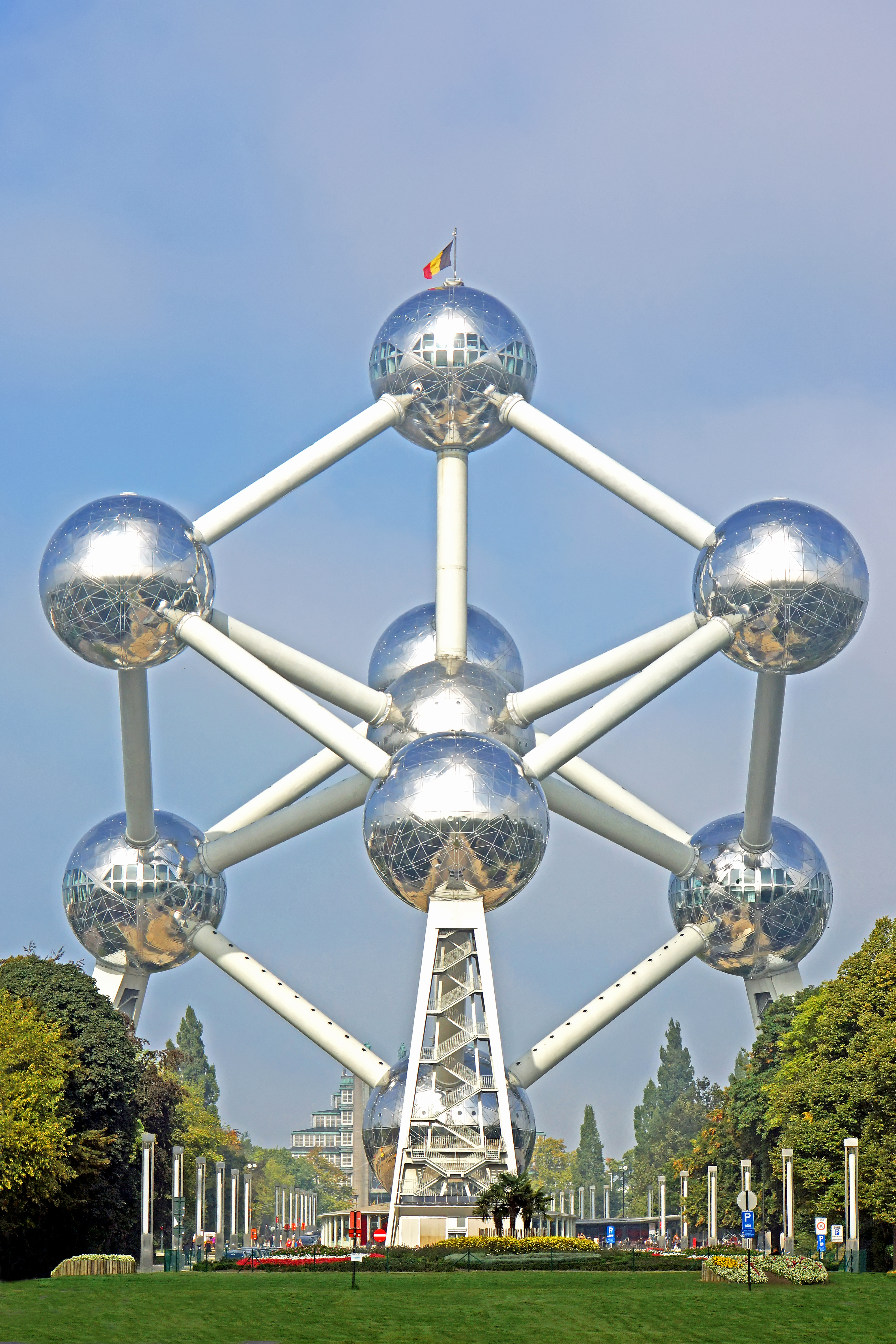 The Atomium is an iconic building in Brussels originally constructed for Expo '58, the 1958 Brussels World's Fair. It stands 102 meters (335 ft) tall. Its nine 18 meters (59 ft) diameter stainless steel clad spheres are connected so its shaped on the model of an elementary iron crystal enlarged 165 billion times.